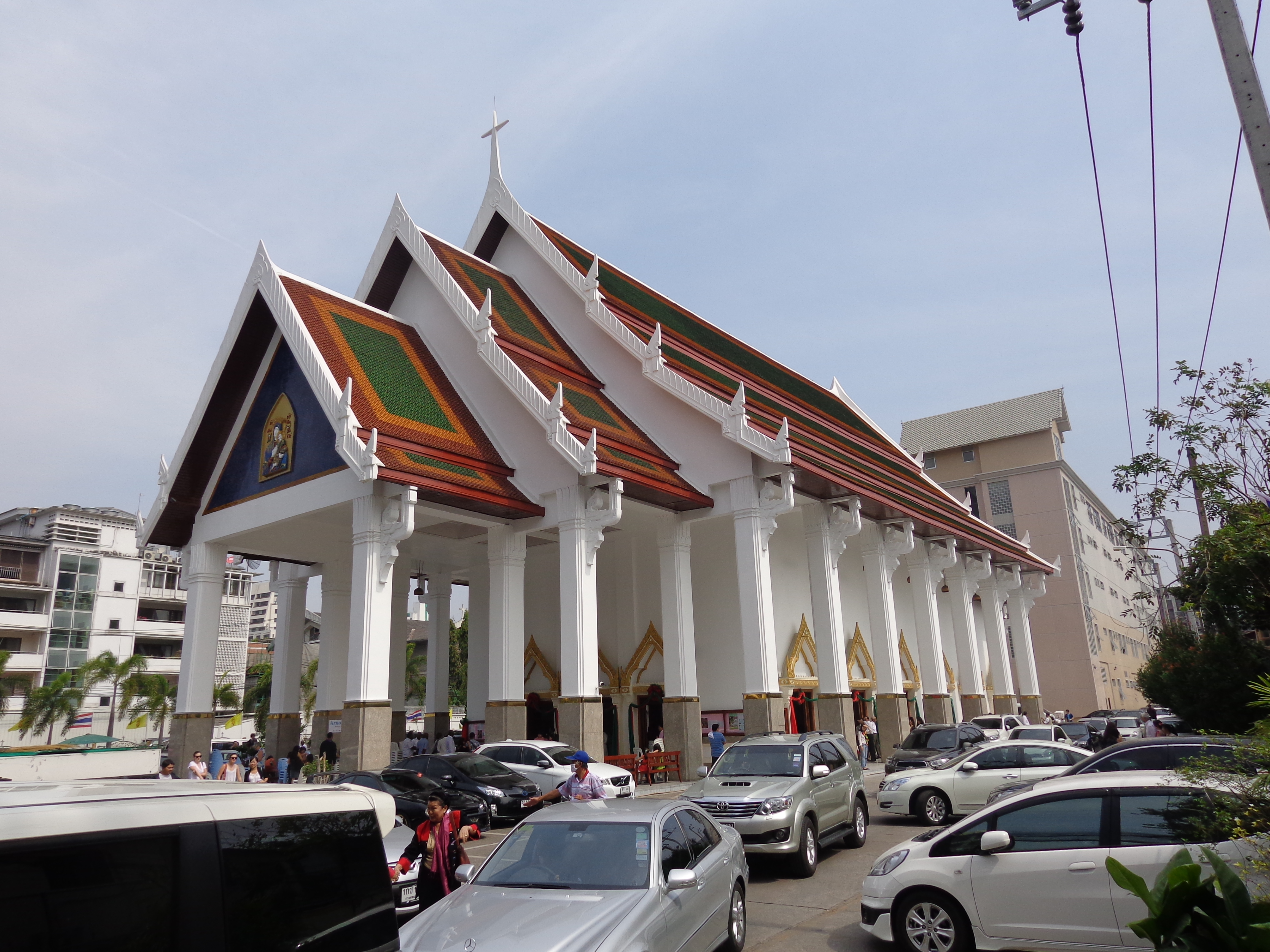 Holy Redeemer Catholic Church in Bangkok, Thailand